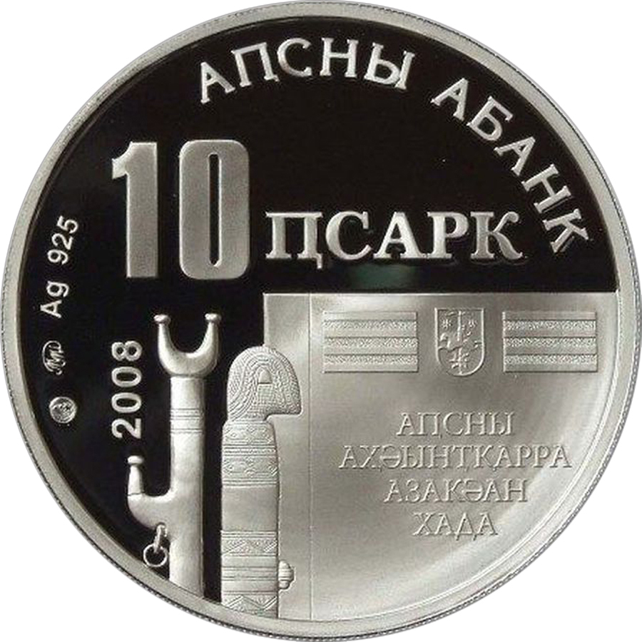 Coin «Vladislav Ardzinba», 10 apsars, 2008, Ag925, obverse